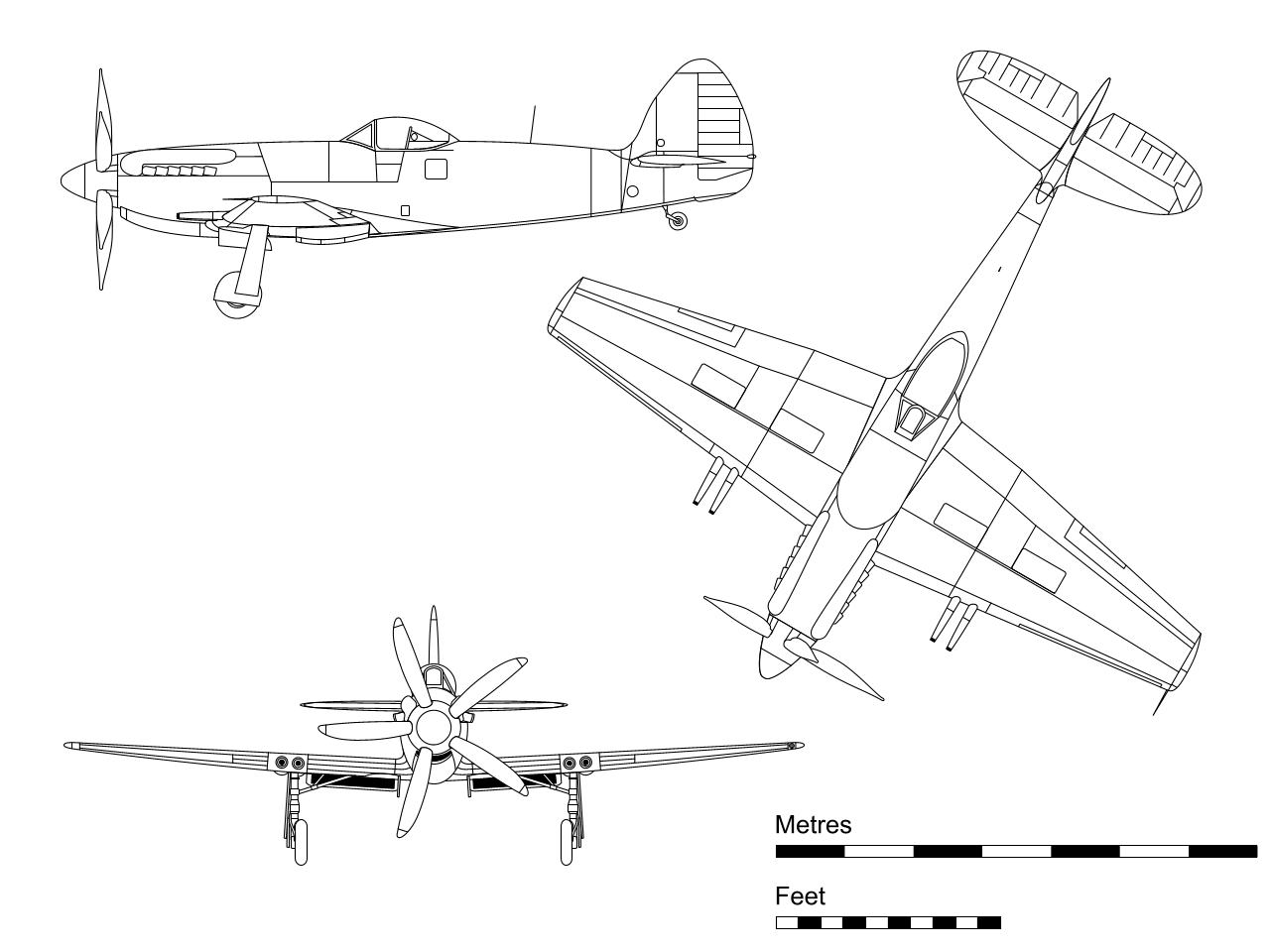 Orthographic projection of the Supermarine Spiteful